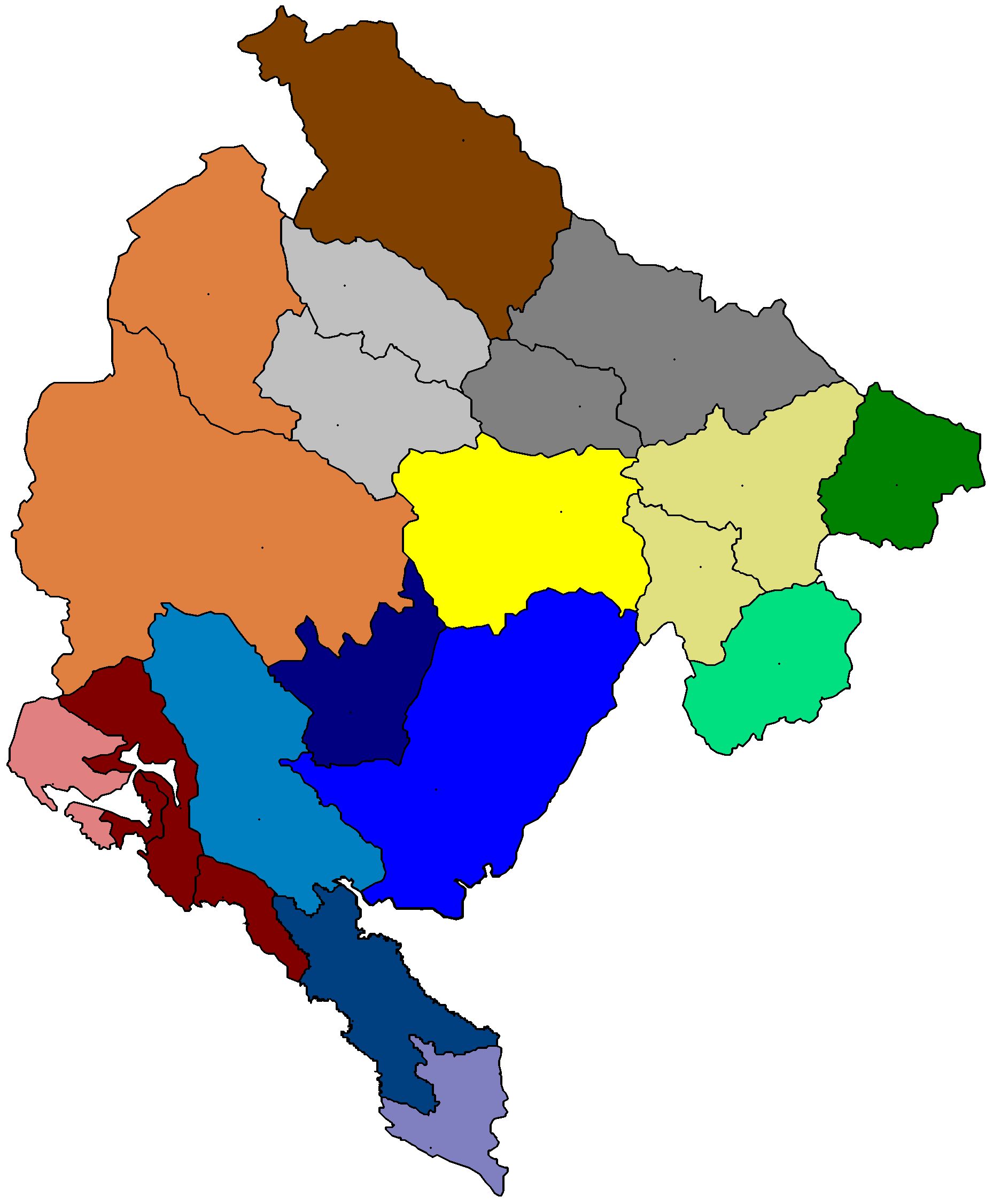 Basic courts of Montenegro (2005)